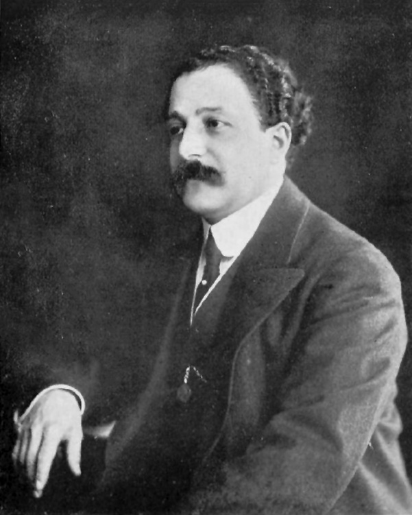 Pierre Monteux, conductor of the Ballets Russes (Photo by Le Monde Musical) The original image has been cropped and converted to grayscale with Photoshop Elements 4.